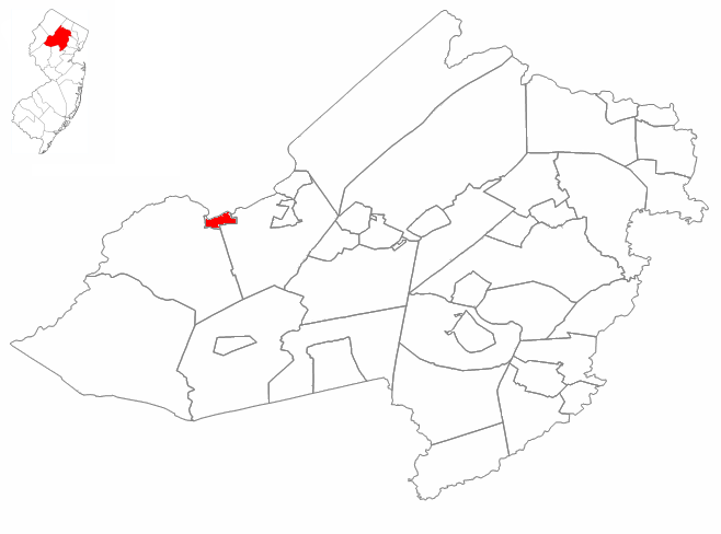 Position of Netcong (highlighted in red) in Morris County. Morris County's position in New Jersey is in turn highlighted in red.